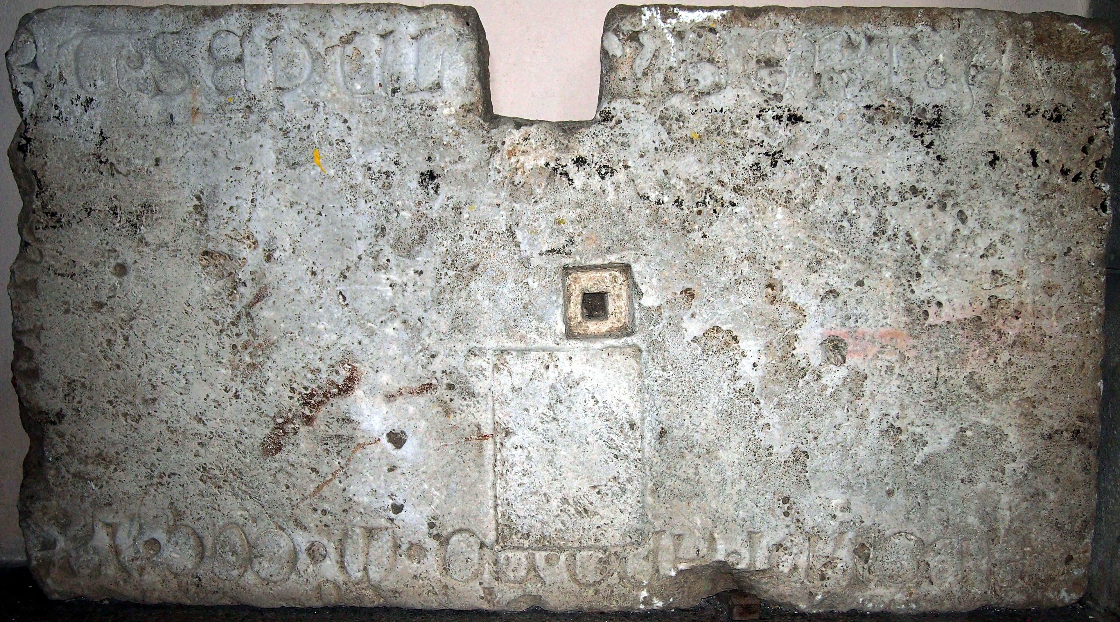 Tombstone from 1320. Inscription: "CSEPULT (A)LBERT DORM ANN. DO. MCCCXX" / Burried (A)lbert rests anno domini 1320